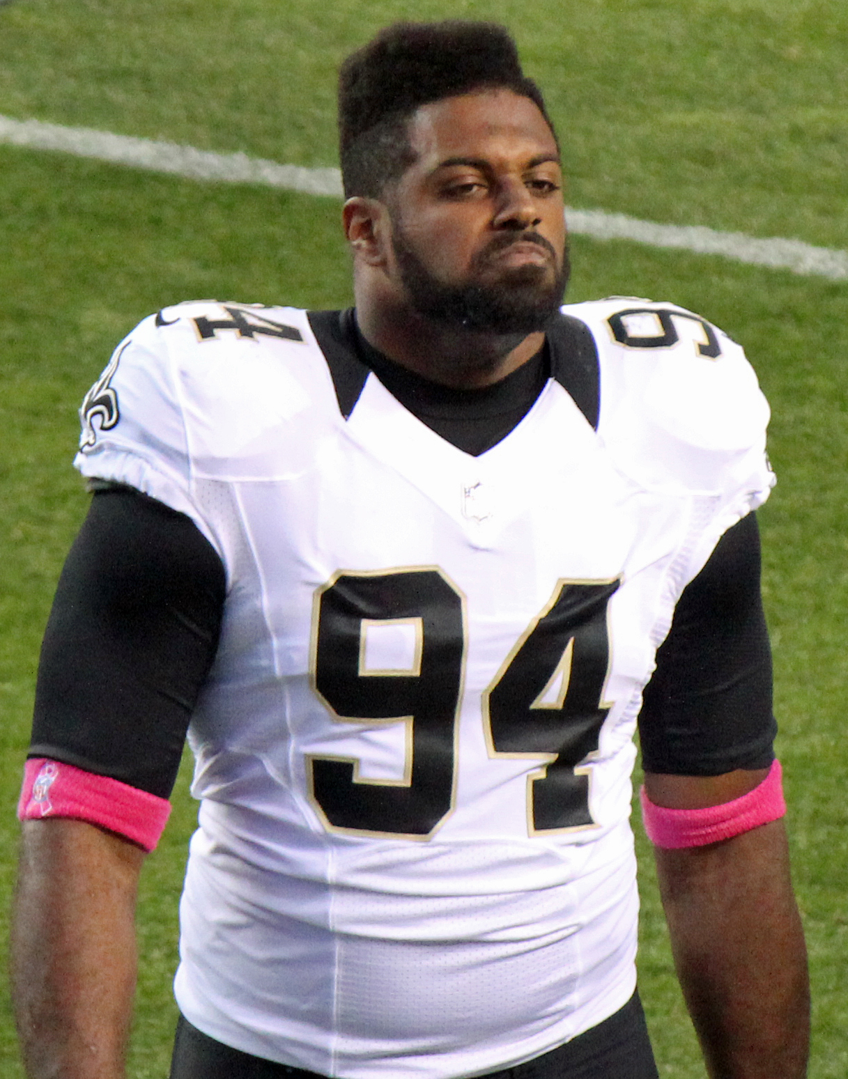 Cameron Jordan, a player on the National Football League.